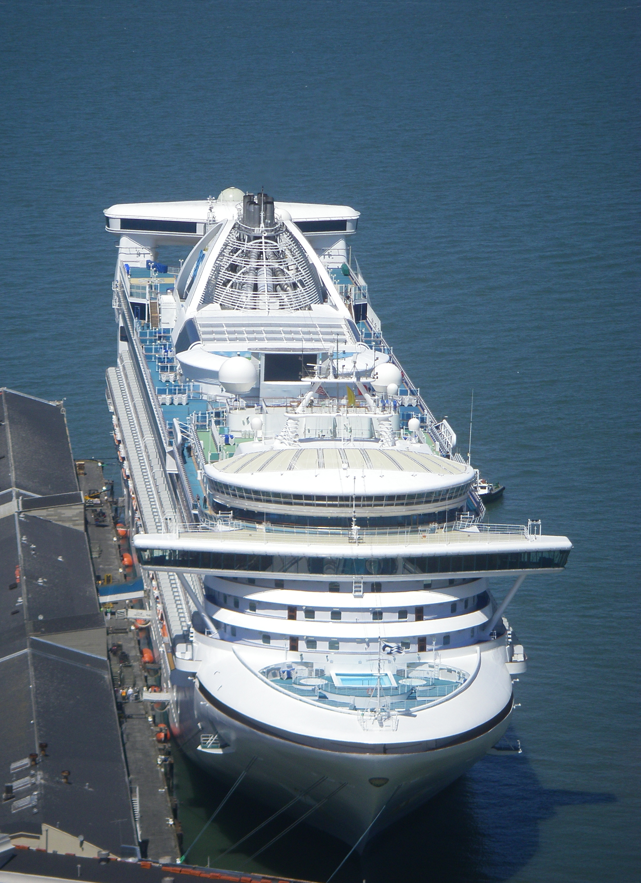 The cruise liner Star Princess on Pier 35 in the harbor of San Francisco.